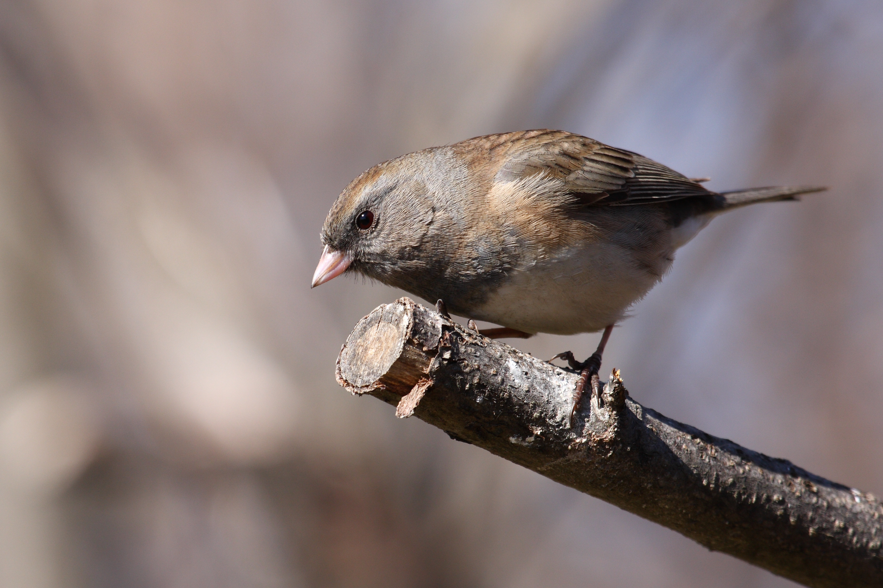 Dark-eyed Junco (Junco hyemalis hyemalis) female, Cap Tourmente National Wildlife Area, Quebec, Canada.